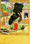 Episode of Balakanda